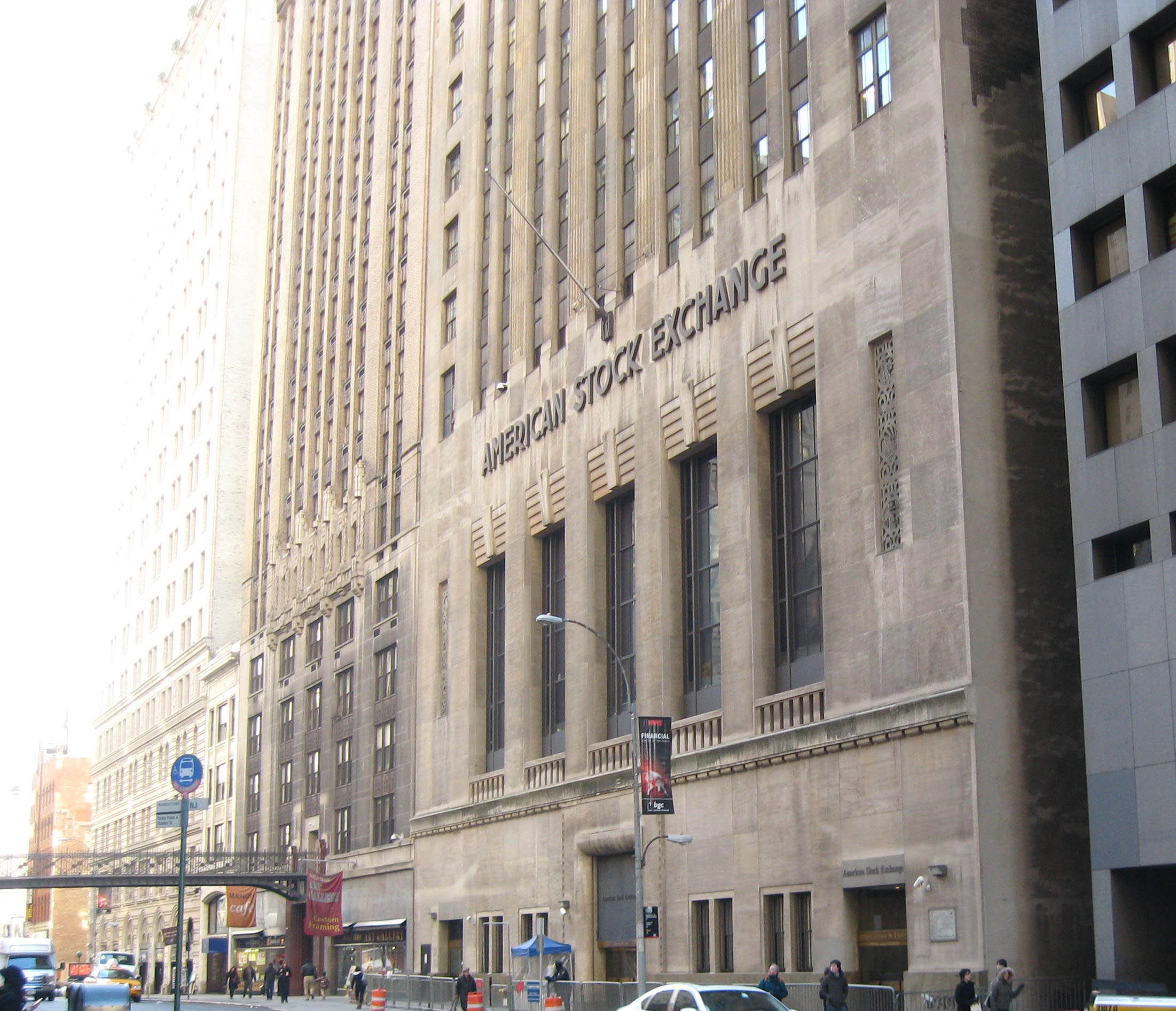 Looking southwest across Church Street (Manhattan) at American Stock Exchange on a sunny afternoon.